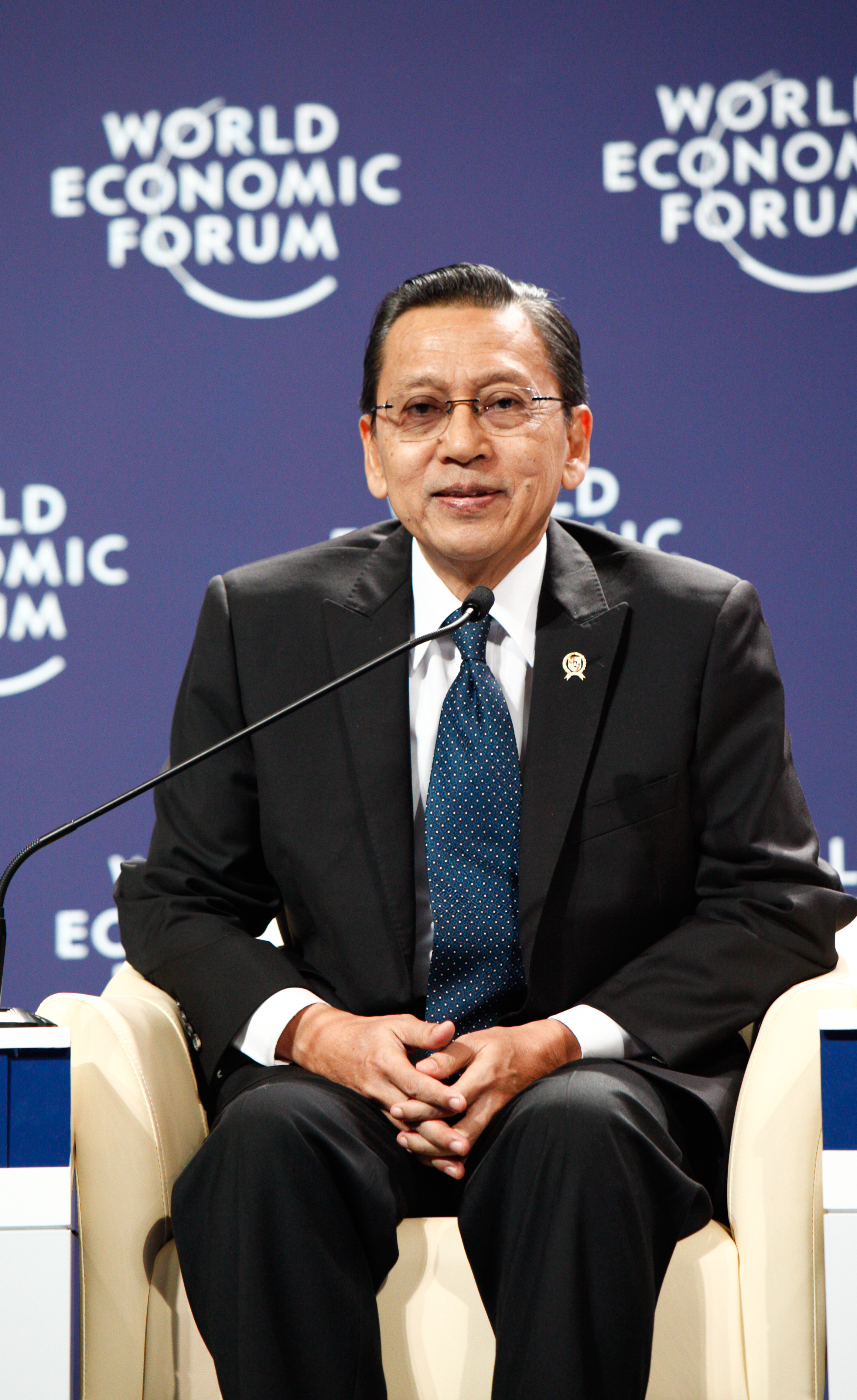 Photo of Boediono, Vice-President of Indonesia, taken during "Inclusive Asia: Reinvigorating the Millennium Development Goals at the World Economic Forum on East Asia" event in Jakarta, Indonesia, June 13, 2011.